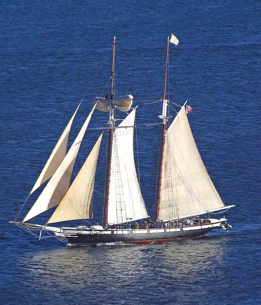 The schooner Californian, a 1984-built replica of the 1847 cutter C.W. Lawrence. Seen from Cabrillo Monument, photographed with a Canon D60